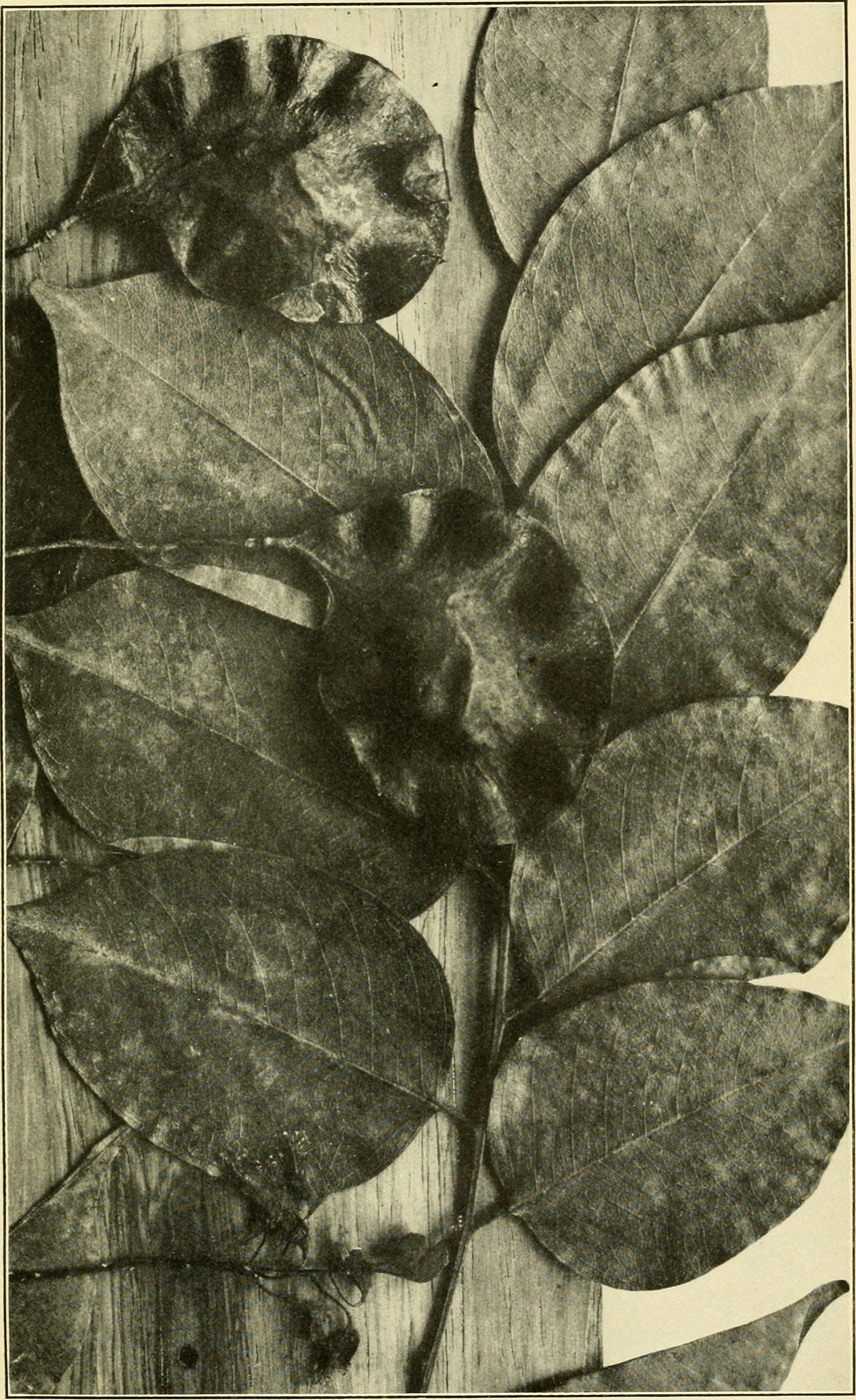 Title: Annual report of the Board of Regents of the Smithsonian Institution Year: 1846 (1840s) Authors: Smithsonian Institution. Board of Regents; United States National Museum. Report of the U. S. National Museum; Smithsonian Institution. Report of the Secretary Subjects: Smithsonian Institution; Smithsonian Institution. Archives; Discoveries in science Publisher: Washington : Smithsonian Institution Text Appearing Before Image: Smithsonian Report, 1915.—Safford. Plate 6. Text Appearing After Image: LlGNUIVl NEPHRITICUM PHILIPPINENSE, PTEROCARPUS INDICUS WiLLD. FROM THE ISLAND OF Luzon.